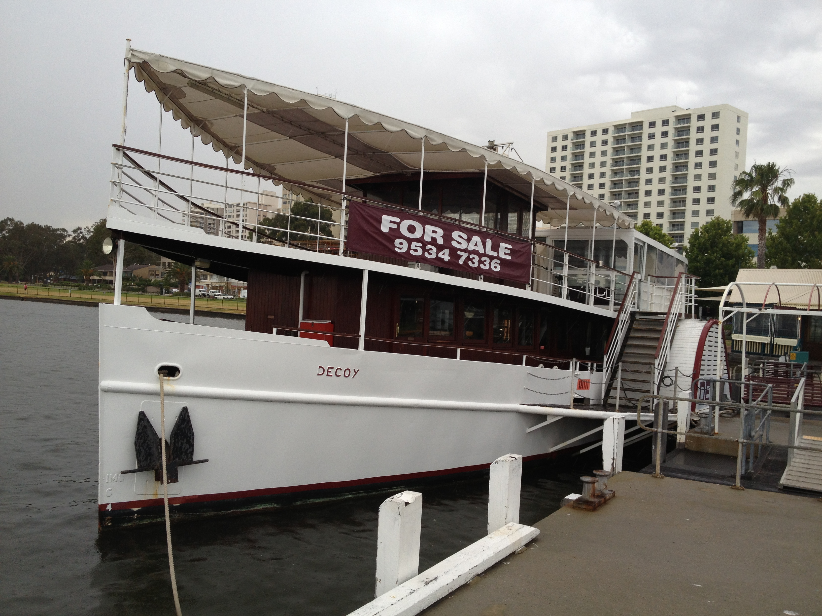 PS Decoy